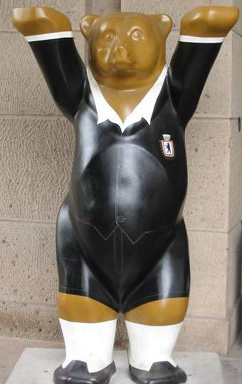 Buddy Bear Sängerknabe in front of the Townhall of Berlin-Schöneberg (see also)